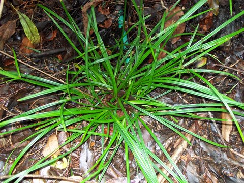 Cyperus tetraphyllus at Eastwood, NSW, Australia